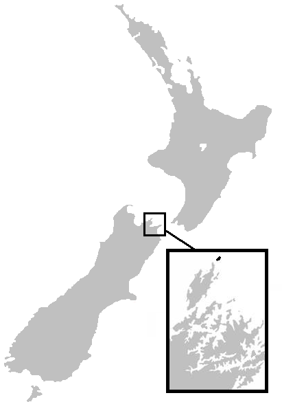 Distribution of Hamiltons Frog (Leiopelma hamiltoni).